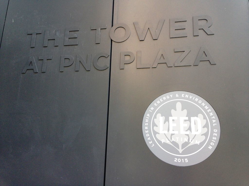 The Tower at PNC Plaza is a leader in green energy.